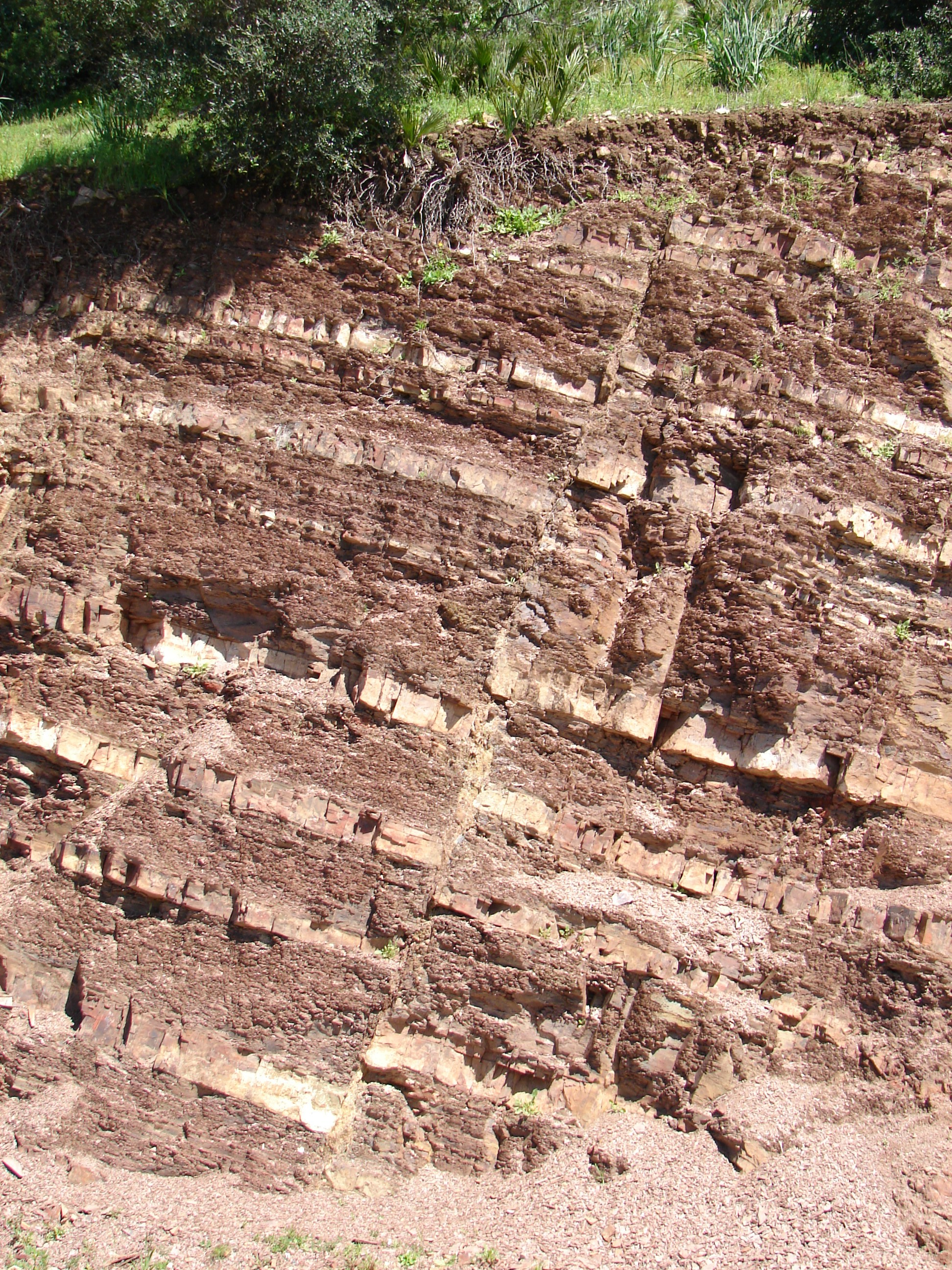 Alternating layers of mudstone and sandstone of the Sidi Bettache Basin of Carboniferous age, cut by a normal fault in Seppap Gorge near Sidi Bettache, Morocco. The outcrop is about 5 metres high. There has been about 15 to 20 centimetres of movement along the fault.